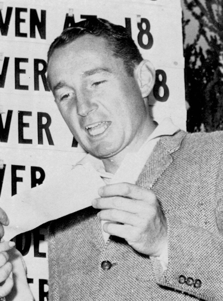 1960 AP Wire Photo actress Barbara Eden presents check to golfer Dow Finsterwald